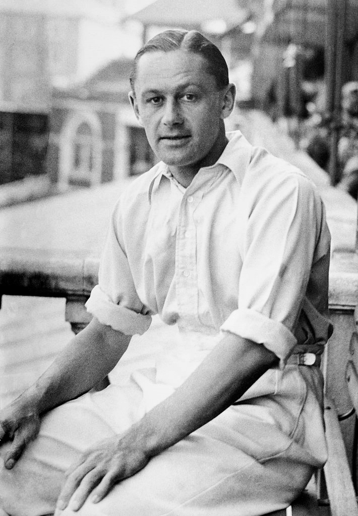 England cricket captain and later MCC administrator Gubby Allen photographed at Lord's Cricket Ground in London, circa 1935.